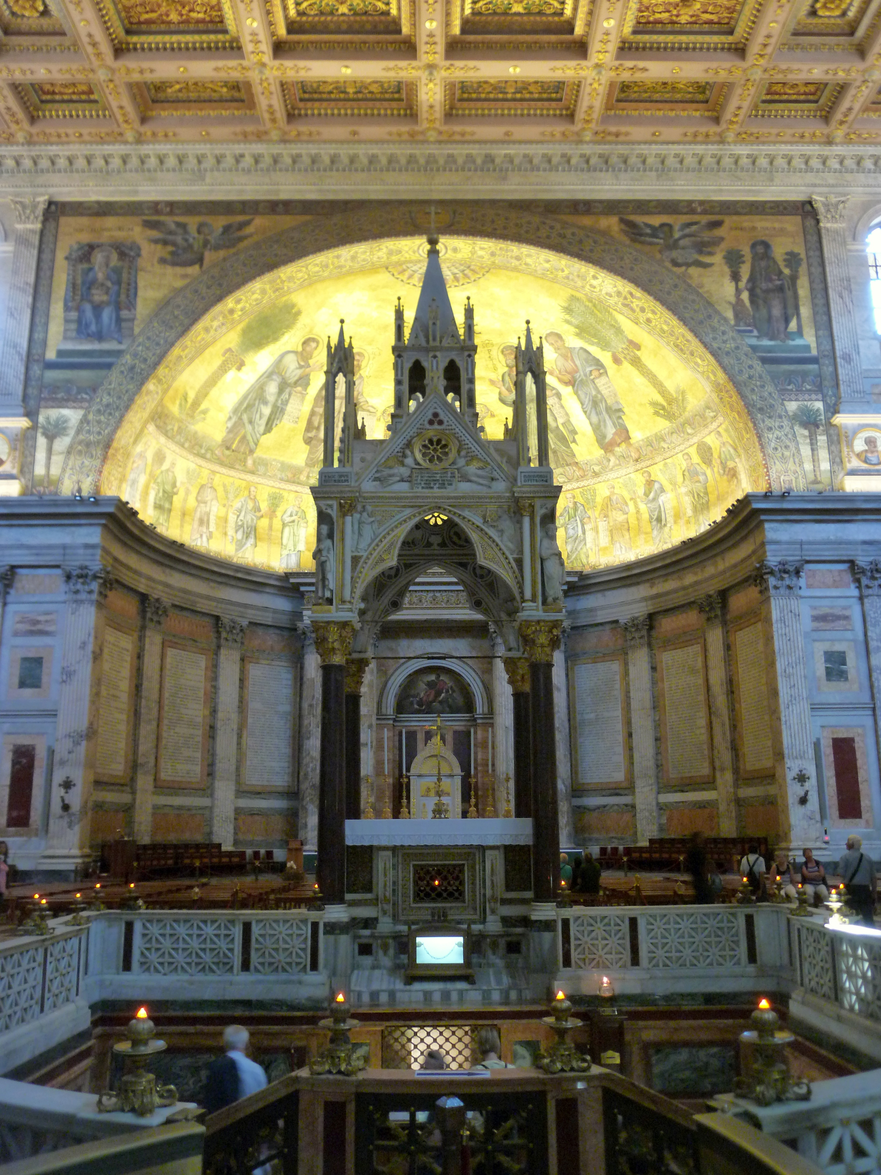 Basilica of Saint Paul Outside the Walls (Rome) - the tabernacle of the confession